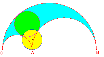 Bankoff's triplet circle